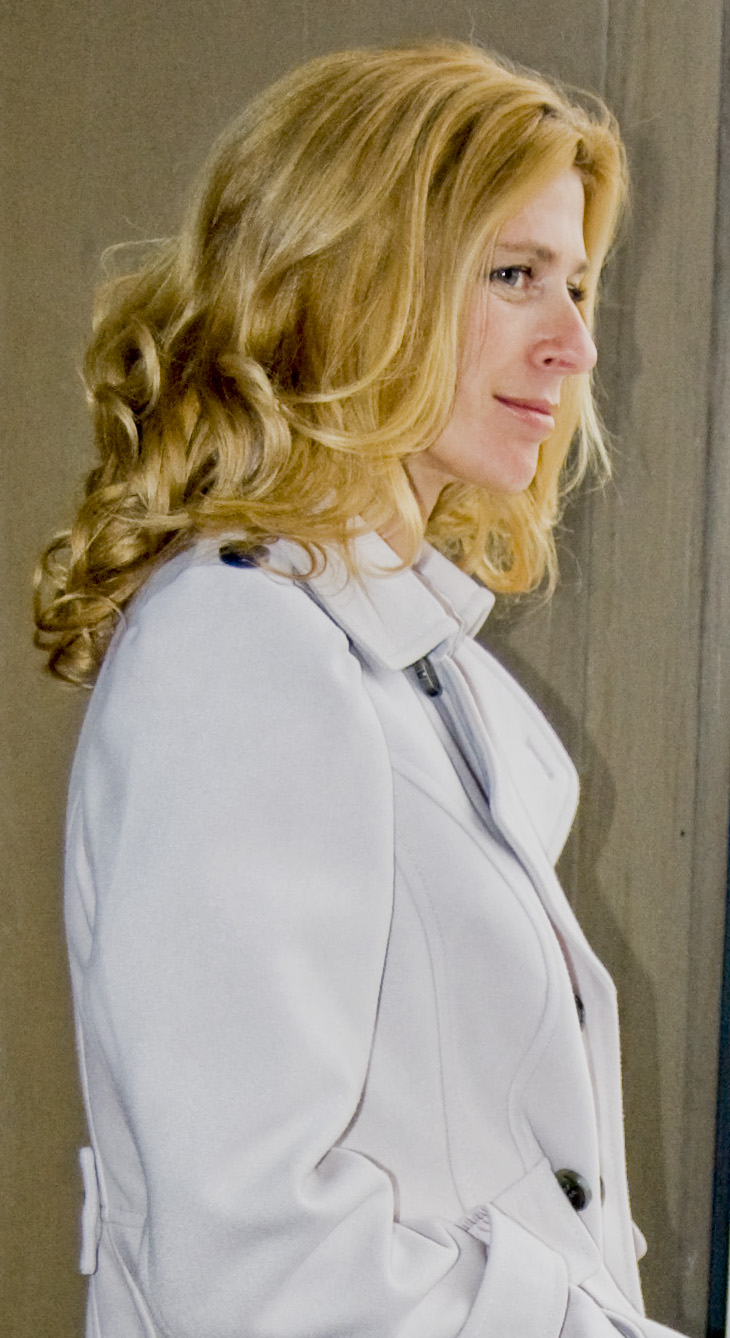 Bianka Panova, Bulgarian rhythmic gymnast